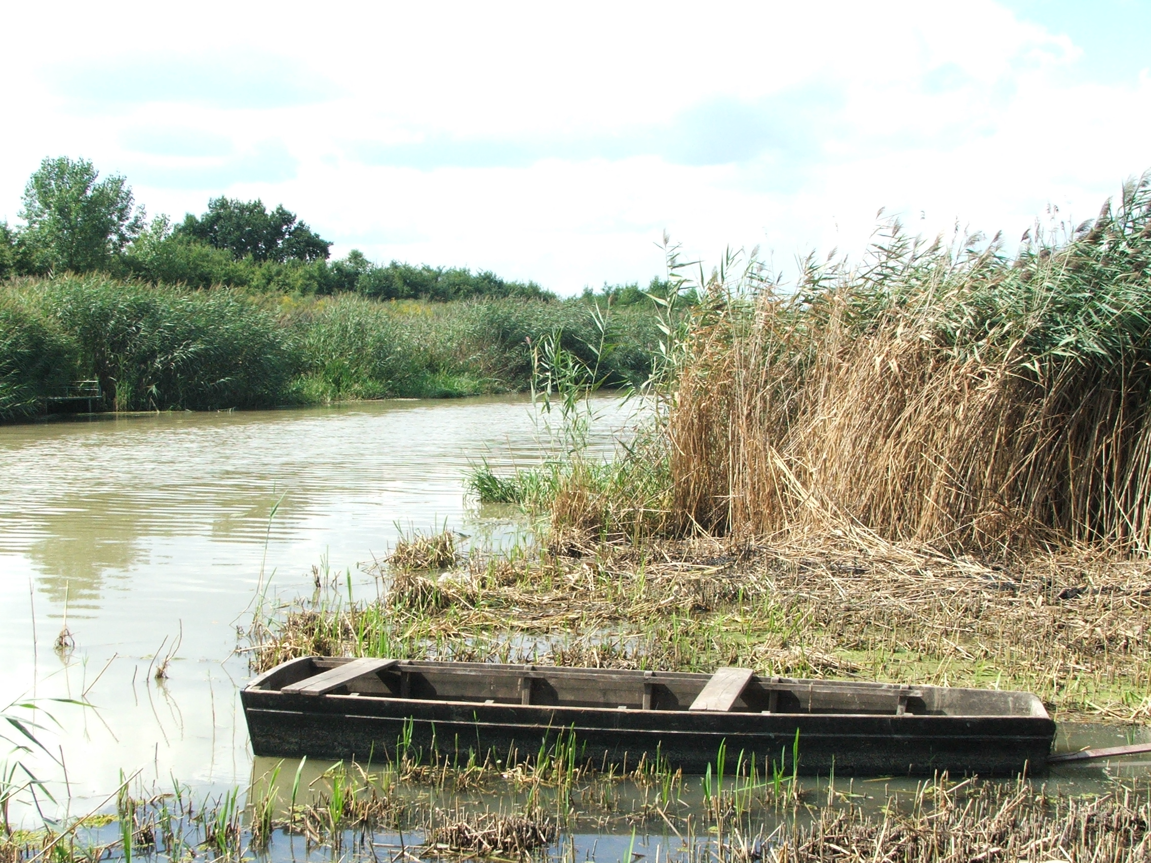 A boat at the Keleti Canal near Hajdúnánás